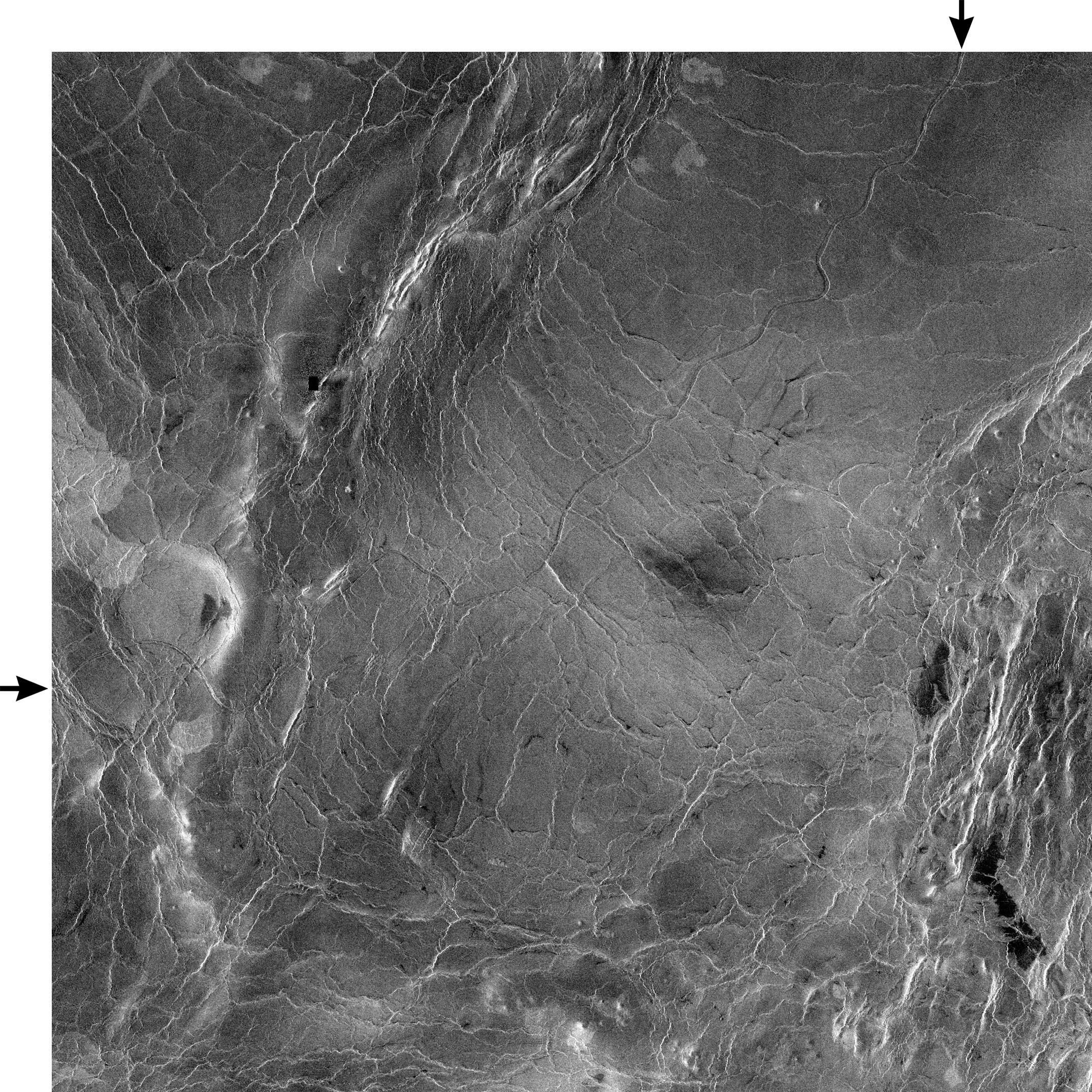 PIA00245: Venus - 600 Kilometer Segment of Longest Channel on Venus This compressed resolution radar mosaic from Magellan at 49 degrees north latitude, 165 degrees east longitude with dimensions of 460 by 460 kilometers (285 by 285 miles), shows a 600 kilometers (360 mile) segment of the longest channel discovered on Venus to date. The channel is approximately 1.8 kilometers (1.1 miles) wide. At more than 7,000 kilometers (4,200 miles) long, it is several hundred kilometers longer than the Nile River, Earth's longest river, thus making it the longest known channel in the solar system. Both ends of the channel are obscured, however, so its original length is unknown. The channel was initially discovered by the Soviet Venera 15-16 orbiters which, in spite of their one kilometer resolution, detected more than 1,000 kilometers (620 miles) of the channel. These channel-like features are common on the plains of Venus. In some places they appear to have been formed by lava which may have melted or thermally eroded a path over the plains' surface. Most are 1 to 3 kilometers (0.6 to 2 miles) wide. They resemble terrestrial meandering rivers in some aspects, with meanders, cutoff bows and abandoned channel segments. However, Venus channels are not as tightly sinuous as terrestrial rivers. Most are partly buried by younger lava plains, making their sources difficult to identify. A few have vast radar-dark plains units associated with them, suggesting large flow volumes. These channels, with large deposits appear to be older than other channel types, as they are crossed by fractures and wrinkle ridges, and are often buried by other volcanic materials. In addition, they appear to run both upslope and downslope, suggesting that the plains were warped by regional tectonism after channel formation. Resolution of the Magellan data is about 120 meters (400 feet). The white margins and arrows have been added to the NASA image.